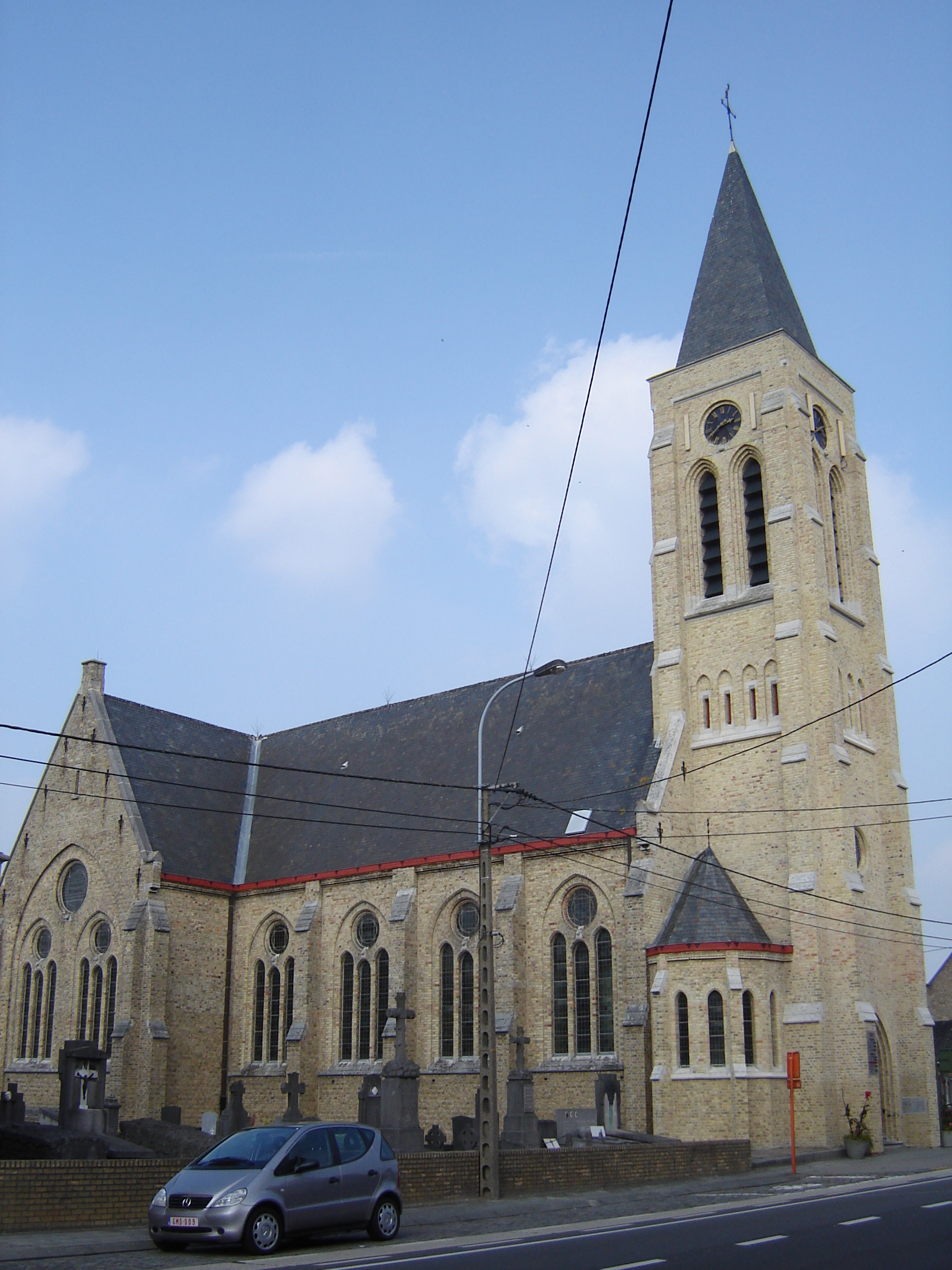 Church of Saint John Baptist in Sint-Jan. Sint-Jan, Ieper, West Flanders, Belgium